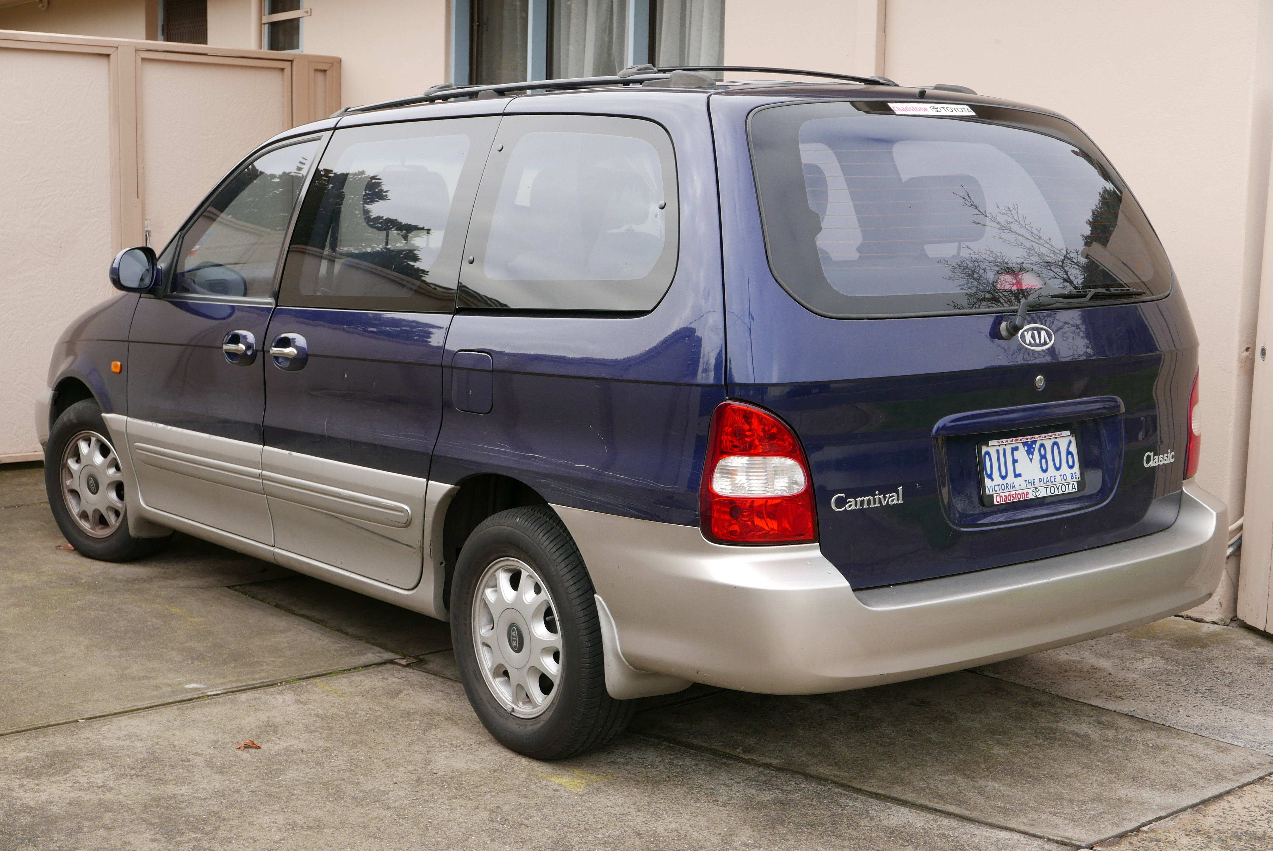 2001 Kia Carnival (KV-Ⅱ) Classic van. Photographed in Ivanhoe, Victoria, Australia. Vehicle registration enquiry resultsJurisdictionVictoriaRegistrationQUE806Chassis codeKNAUP752316028243Engine codeK5042000Compliance date2001-03Year of manufacture2001